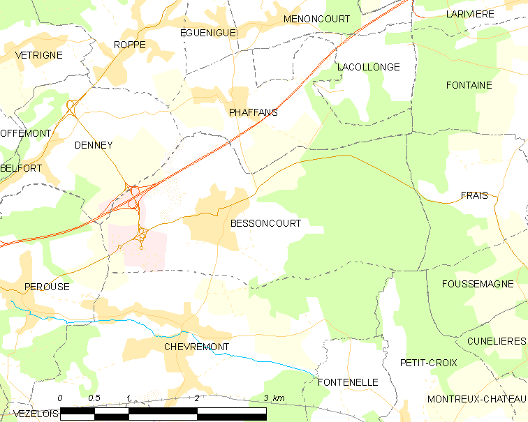 Map of French municipality Bessoncourt